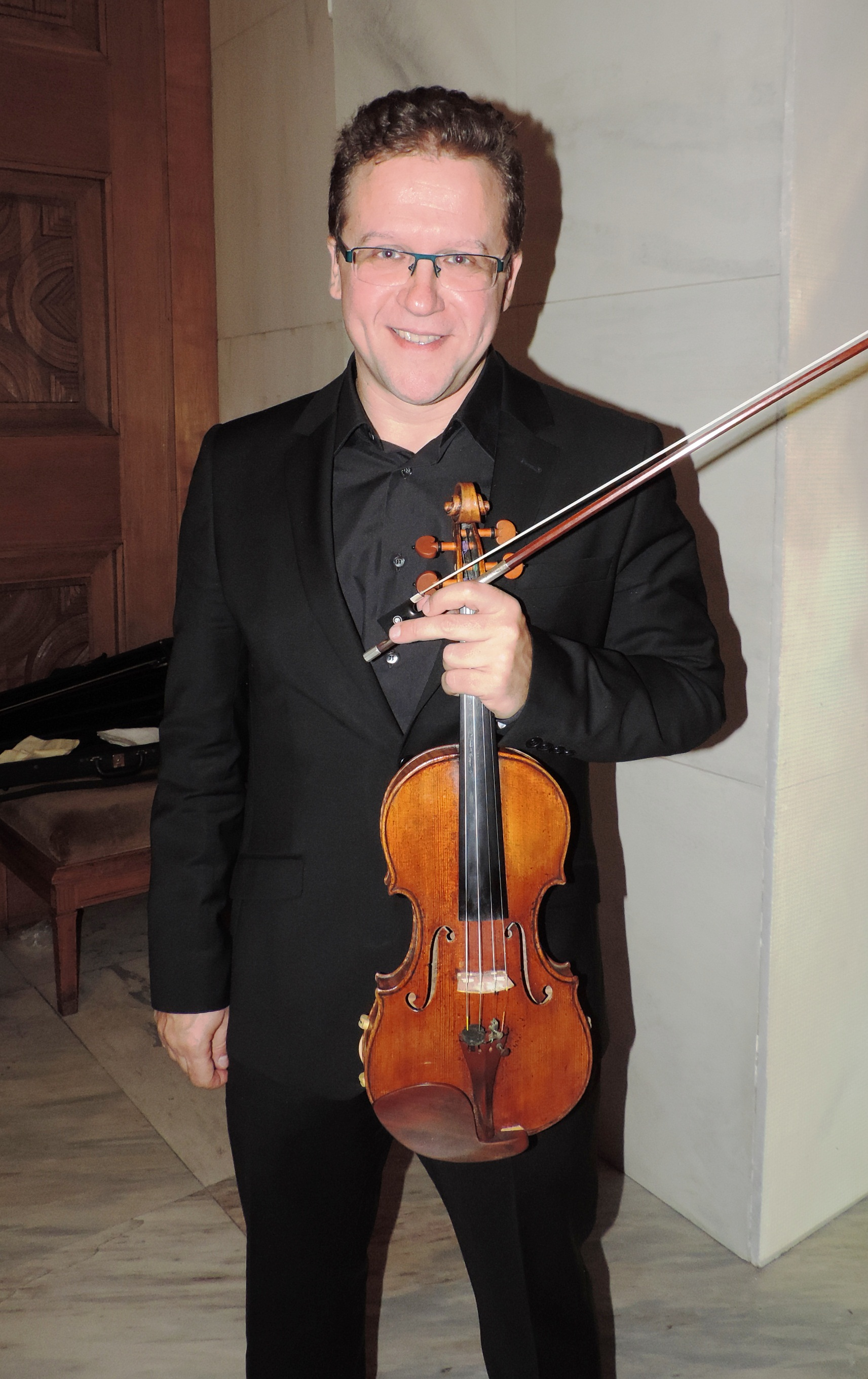 Bulgarian violinist Vesko Eschkenazy during the concert for opening the exhibition "Fragile Tolerance", National Historical Museum, Sofia, Bulgaria in the frames of the EMEE Project